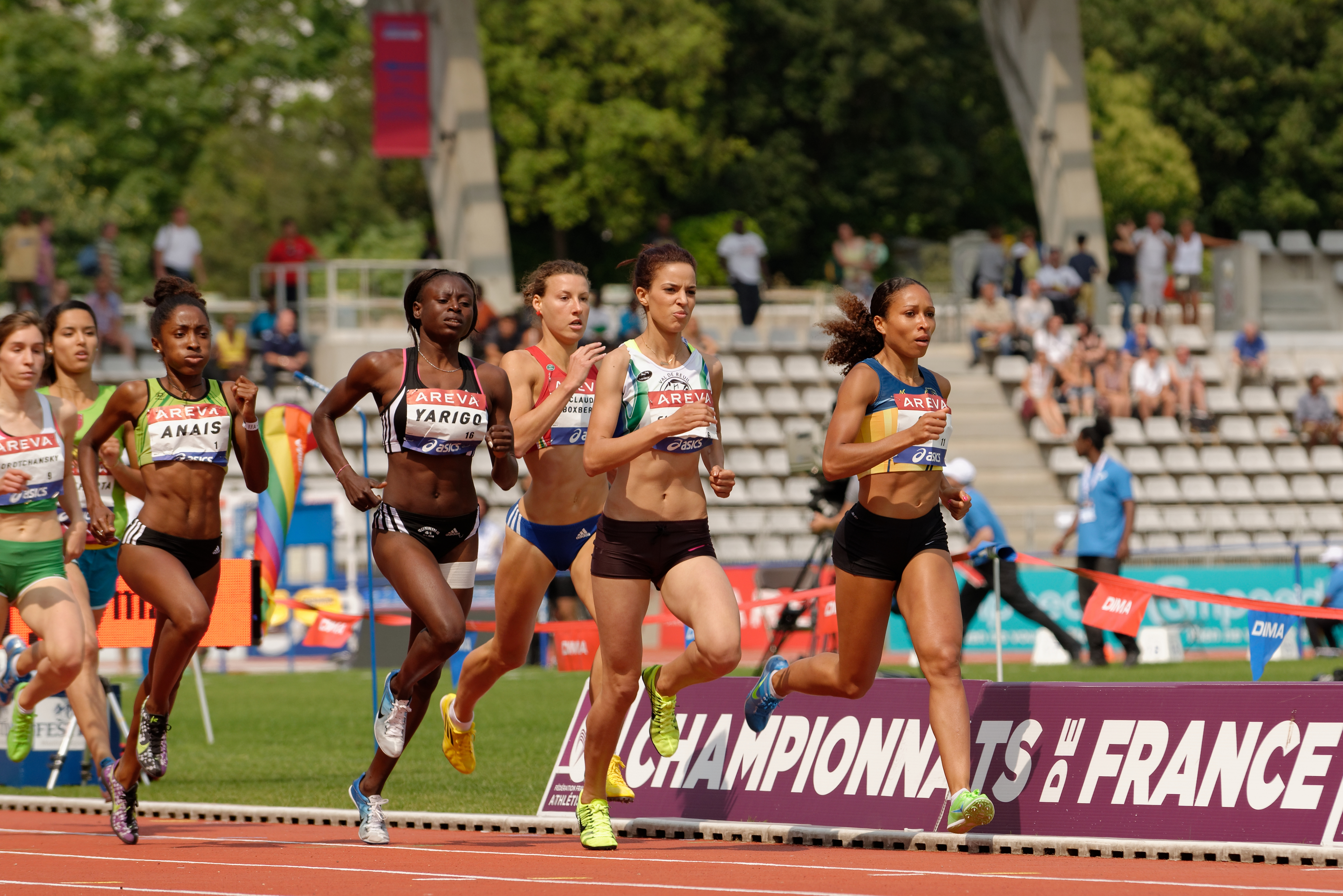 Women's 800-metre race during the French Athletics Championships 2013 at Stade Charléty in Paris, 13 July 2013.